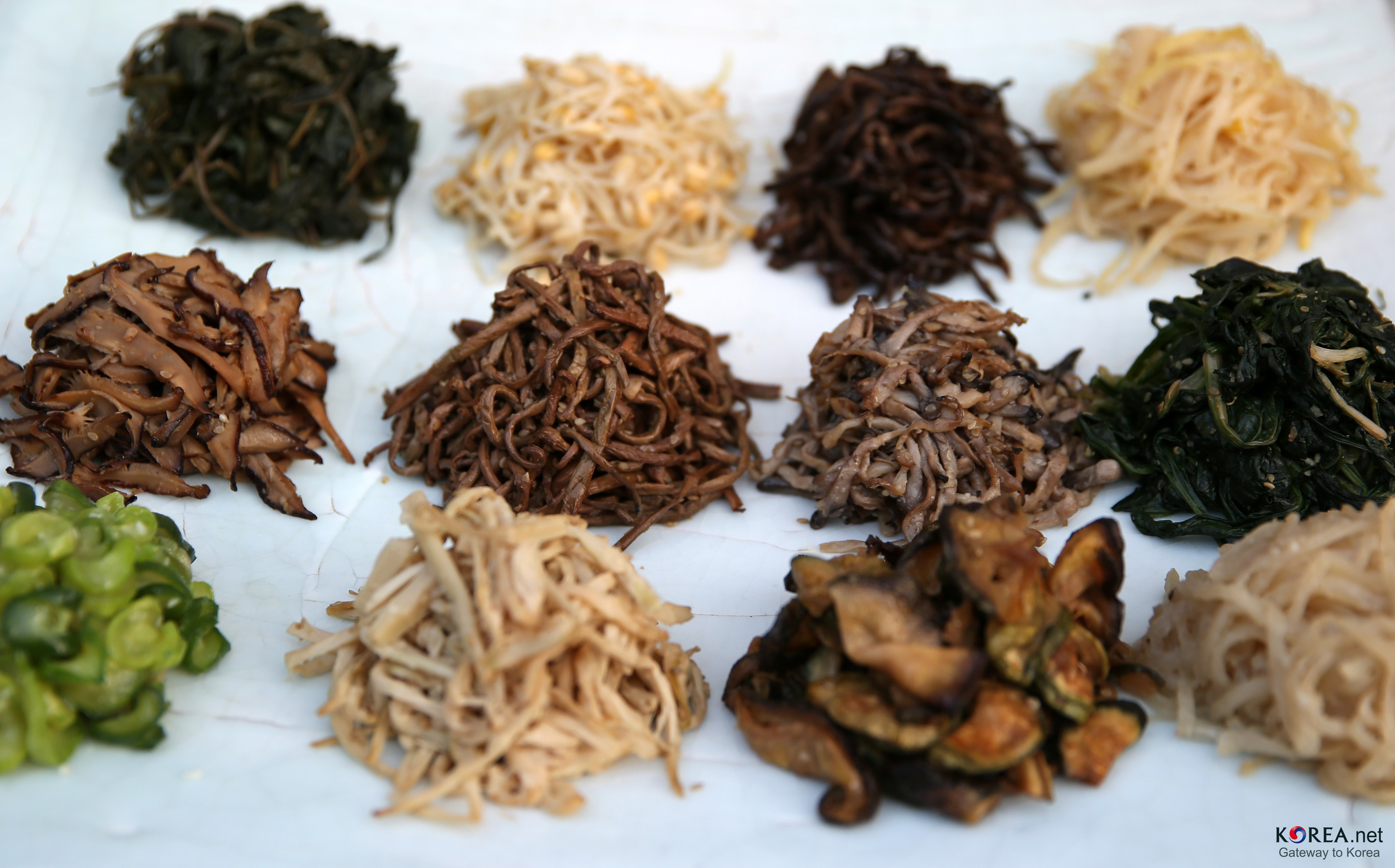 Ariang-themed concert at the Nokjiwon Garden of Cheong Wa Dae